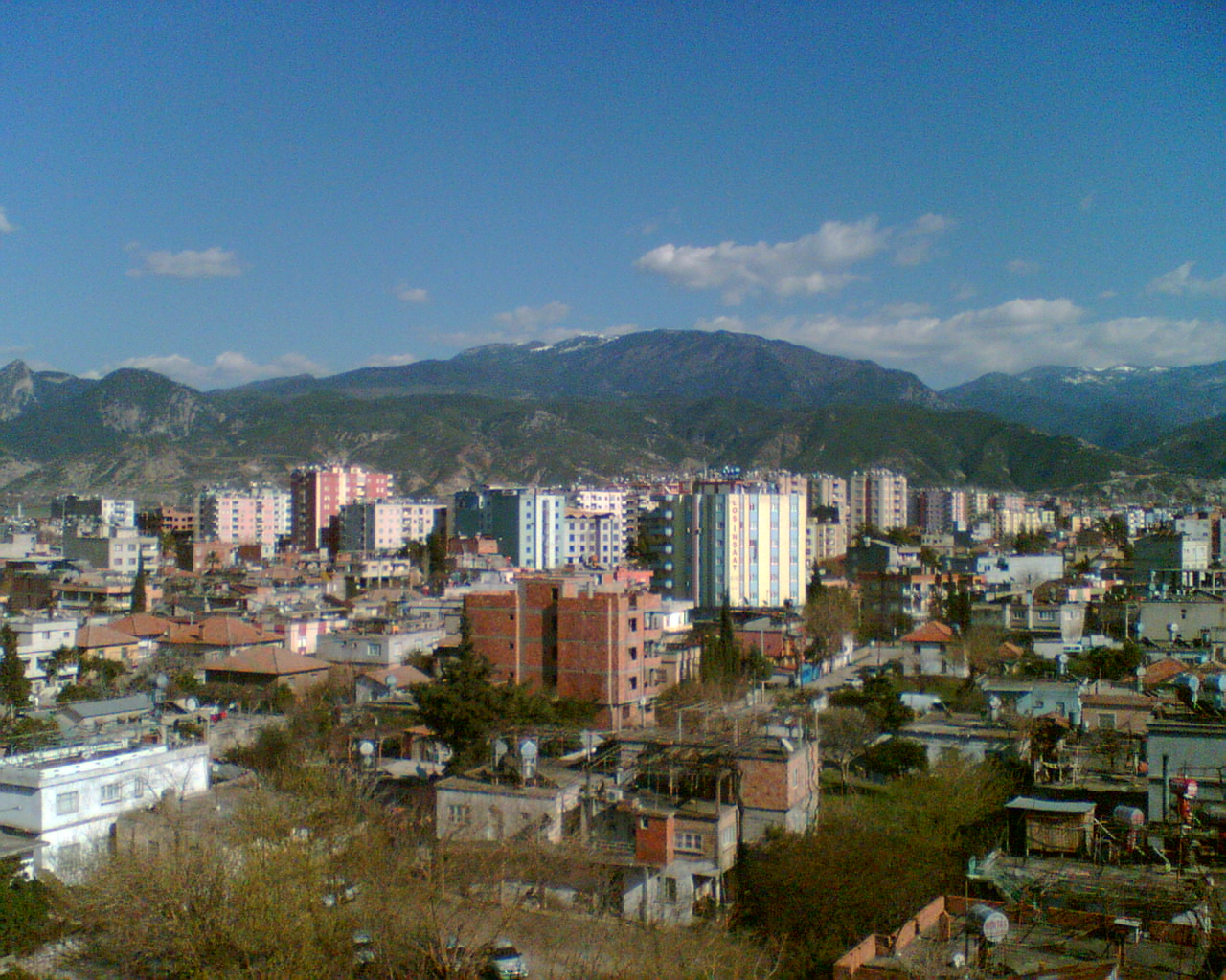 A view from Osmaniye, Turkey. (I TOOK THIS FOTO)